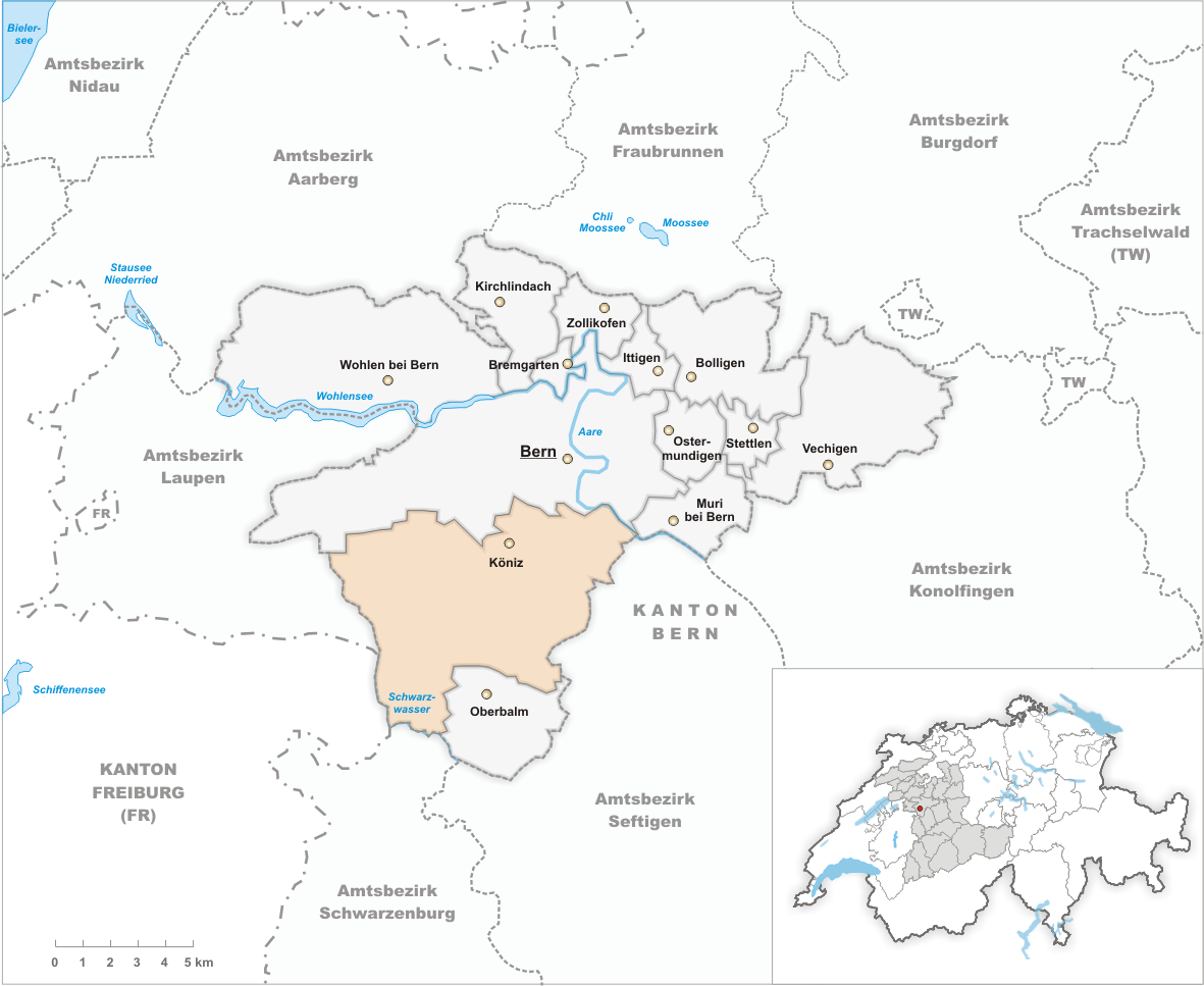 Municipality Köniz